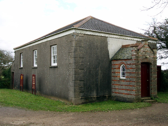 Billy Bray's 'Three eyes' chapel on Kerley Downs. Billy Bray was a revivalist preacher in the nineteenth century. He is buried in the disused church at Baldhu, see SW7743